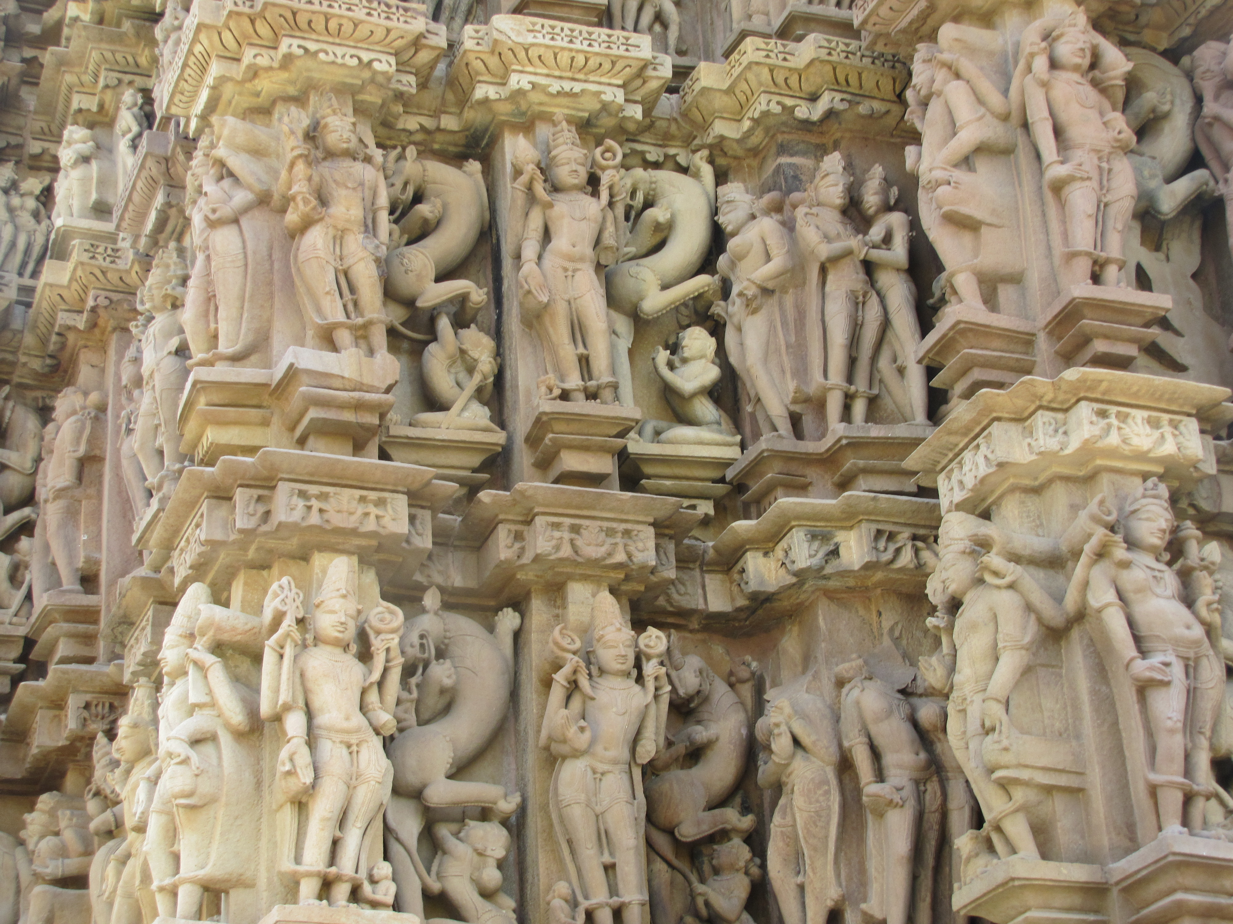 Devi Jagdambi Temple Khajuraho Outer Wall